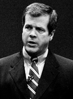 Karl Dean at the Nashville mayoral debate